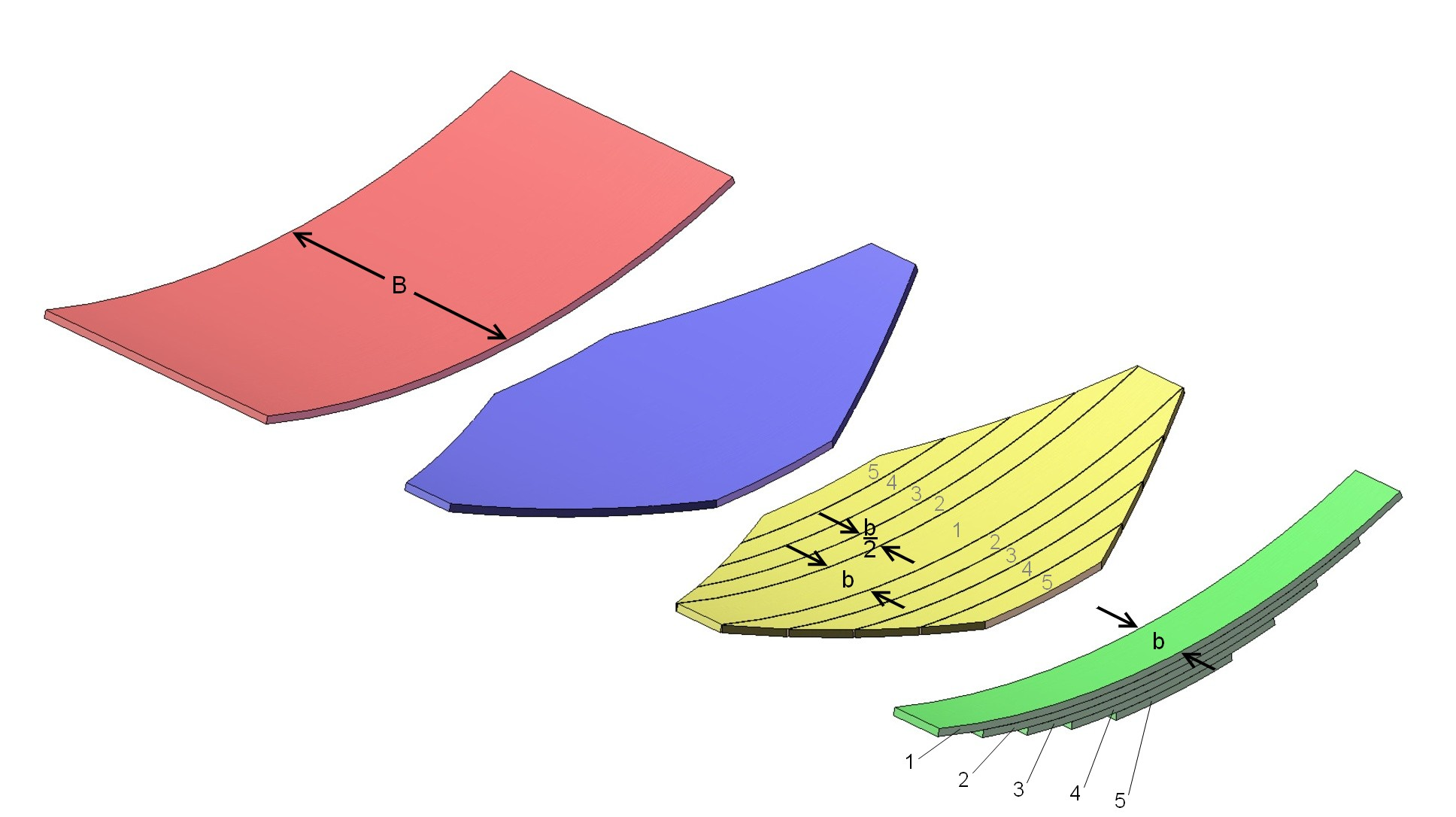 construction of a stacked leaf spring